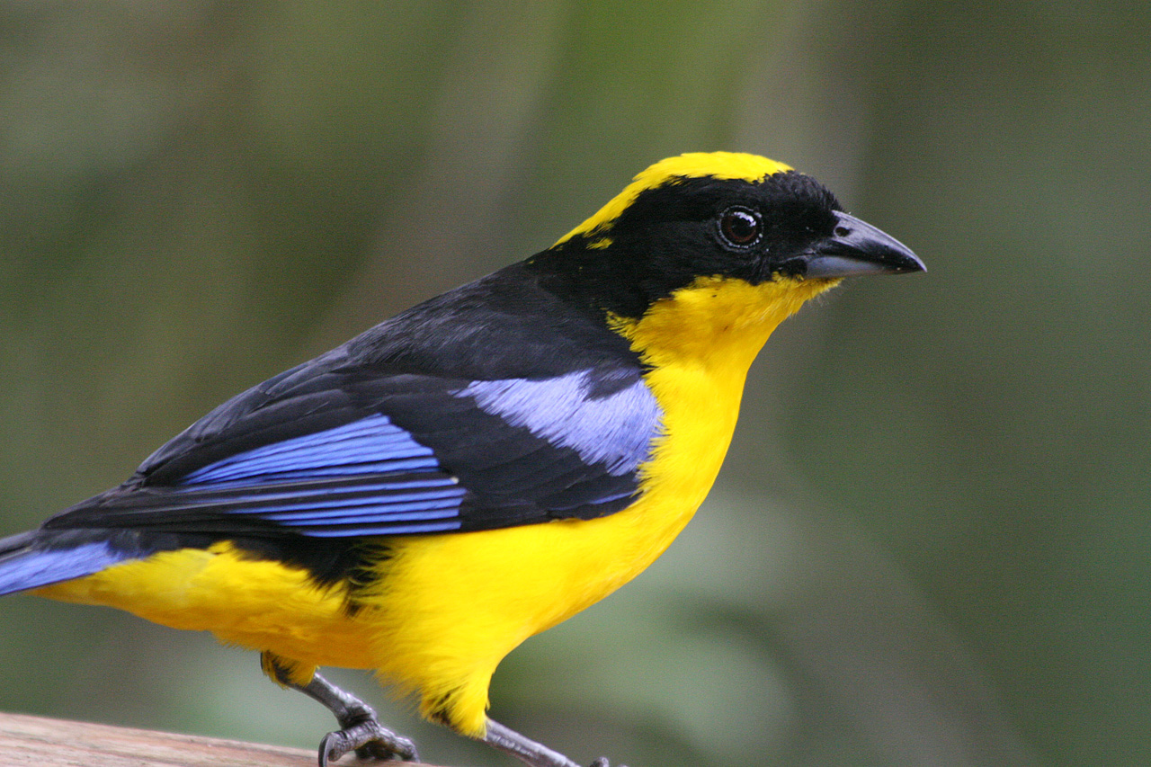 Blue-winged Mountain Tanager Anisognathus somptuosus photographed by Tad Boniecki at the Bellavista cloud forest, Ecuador in February 2007. Article Blue-winged Mountain-tanager